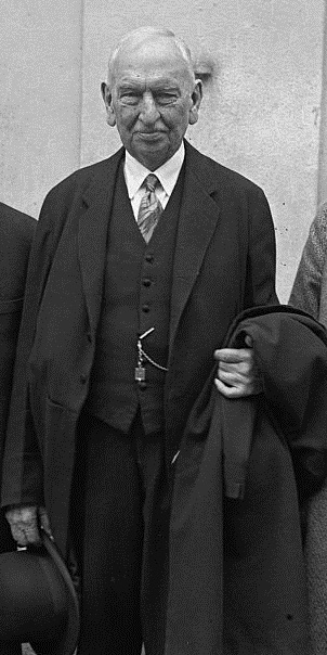 Francis Seiberling, congressman from Ohio cropped from May 9, 1929 photo.